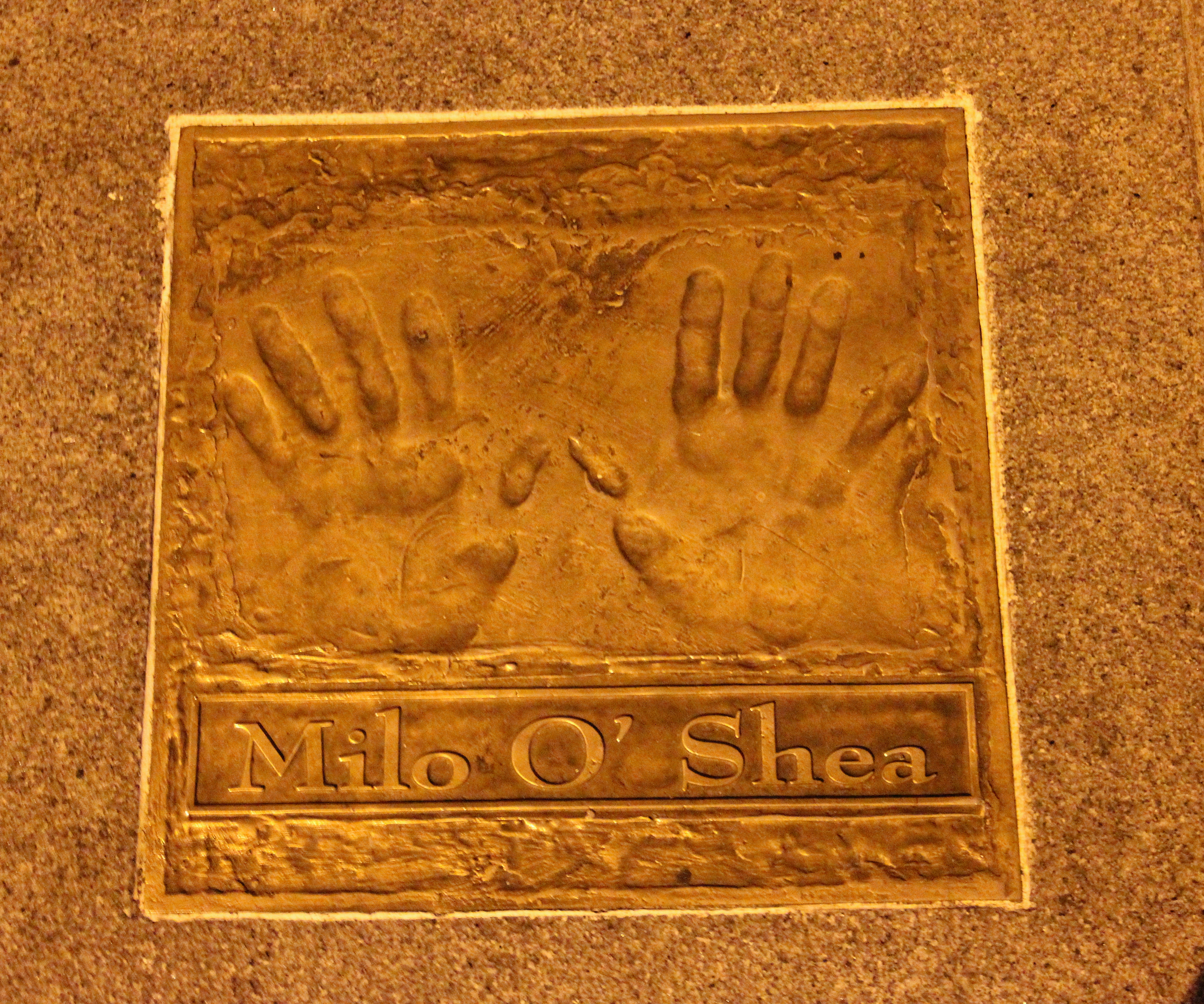 Handprint of actor Milo O'Shea in front of the Gaiety Theatre in Dublin, Ireland.